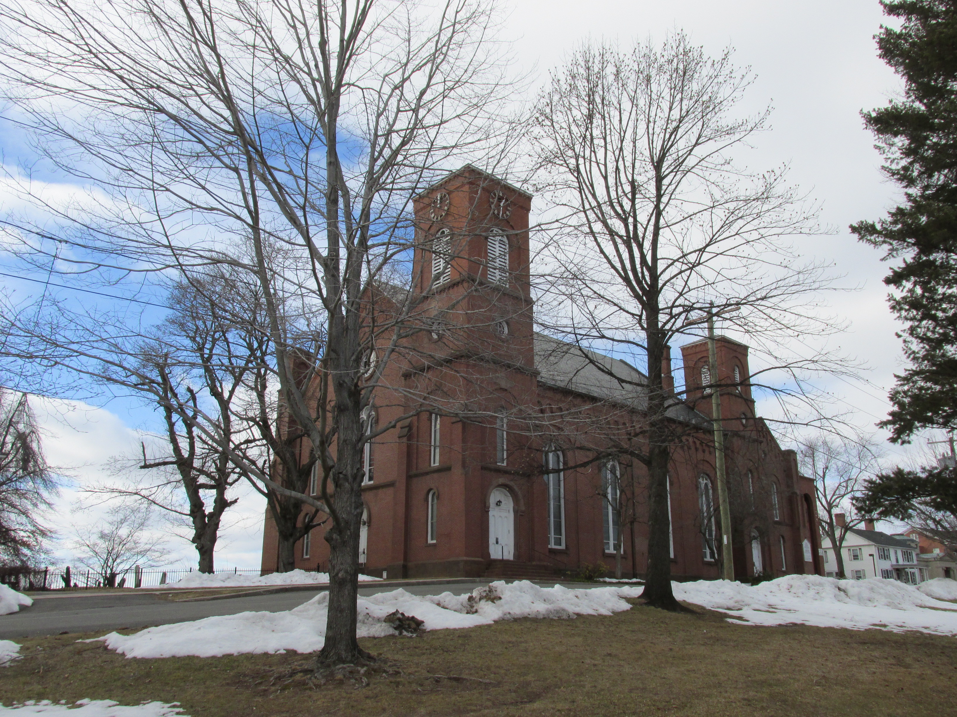 First Church of Christ Congregational, Suffield Connecticut